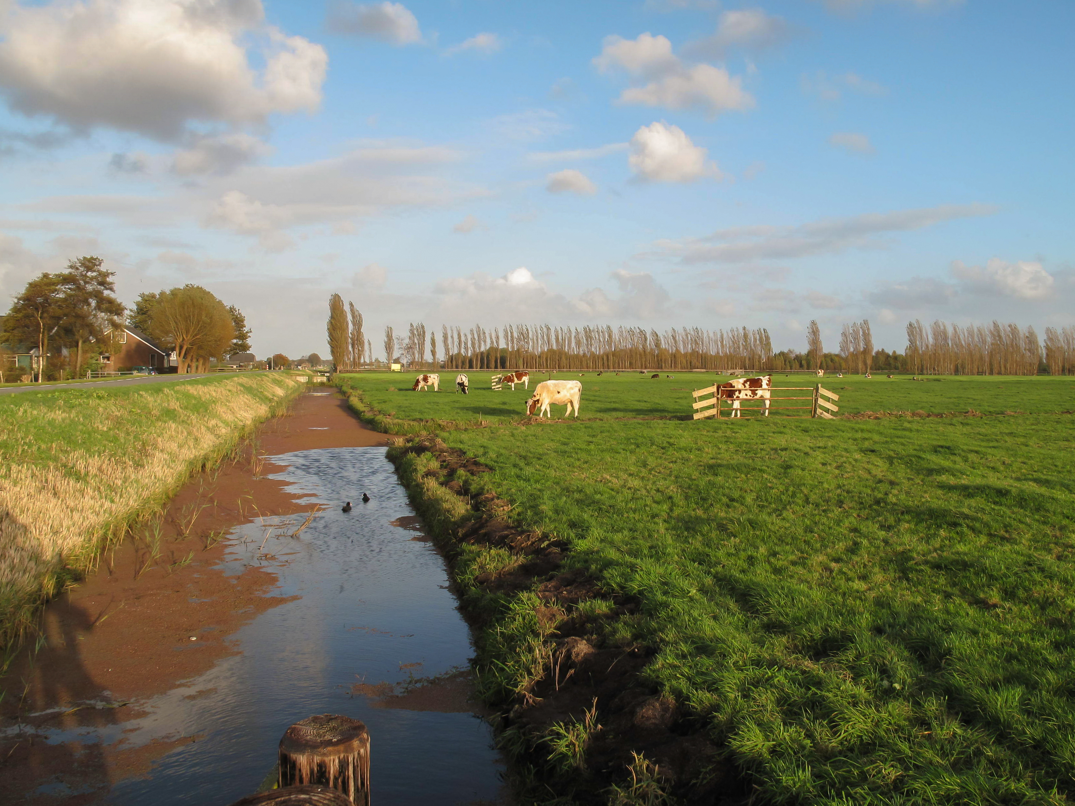 between Roelofarendsveen and Hoogmade, view to the polder